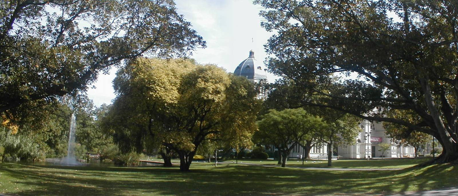 Carlton Gardens South with ornamental lake and Royal Exhibition Building.